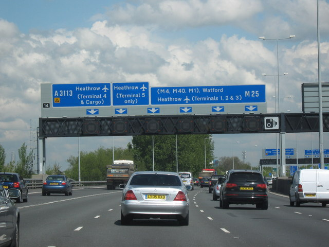 M25 Motorway Clockwise. Approaching Junction 14 For A3113 For Heathrow